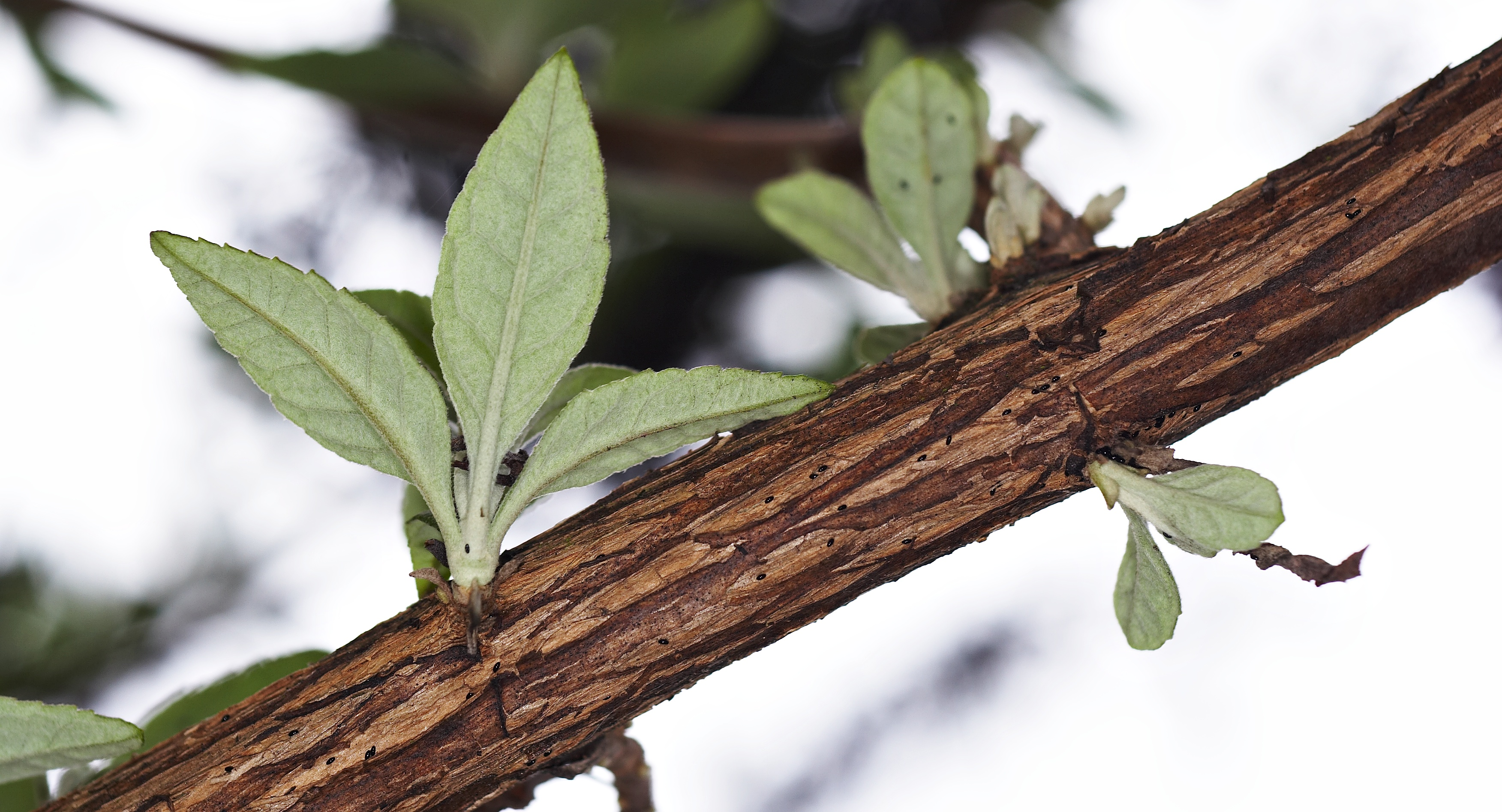 Branch of Buddleja davidii with fresh leaves and unidentified parasites